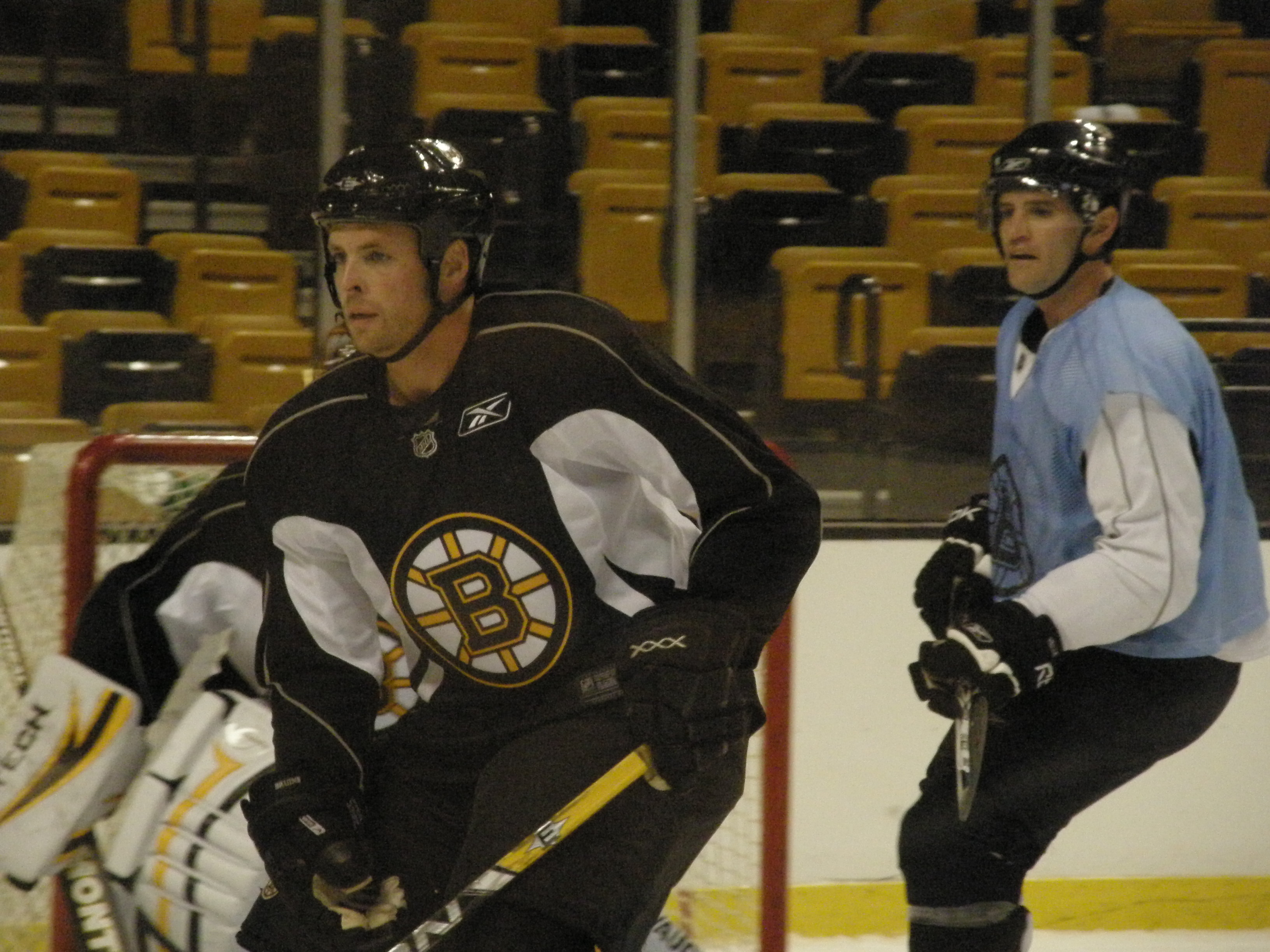 44 Aaron Ward (D) and #18 Stephane Yelle (C)